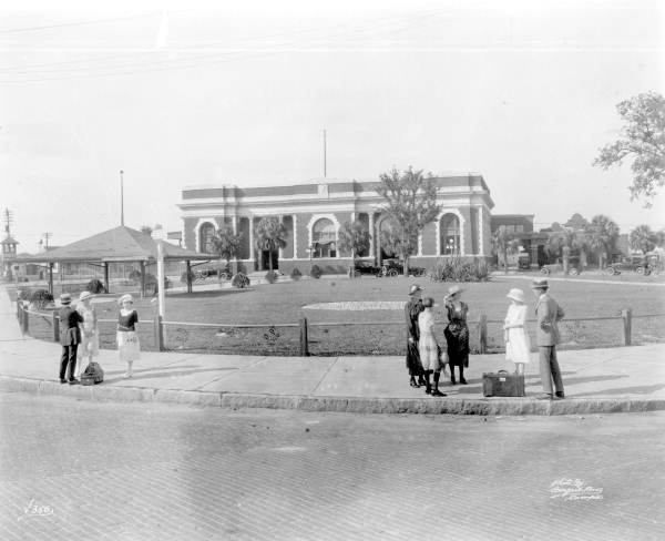 Local call number: RC11821 Title: Union Railroad Station: Tampa, Florida Date: 1922 General note: Union Railroad Station, located at 601 North Nebraska Avenue in Tampa, Florida, opened in 1912. It was added to the National Register of Historic Places in 1974. Physical descrip: 1 photoprint - b&w - 8 x 10 in. Series Title: Reference Collection Repository: State Library and Archives of Florida, 500 S. Bronough St., Tallahassee, FL 32399-0250 USA. Contact: 850.245.6700. Persistent URL